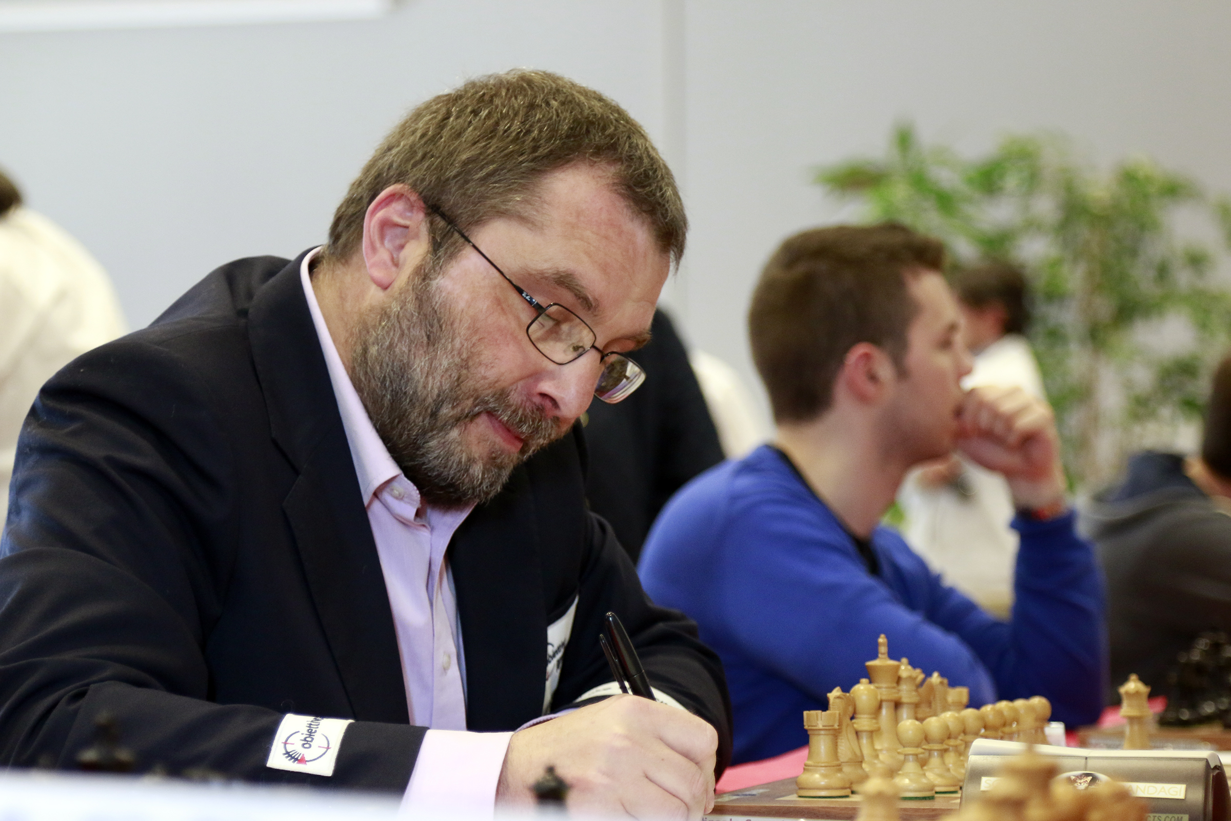 Michele Godena, chess Grandmaster. 47° Italian Team Championship, Civitanova Marche (Italy), April 29th/May 3rd, 2015.